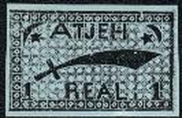 Cinderella stamp of Acheh (Indonesia)